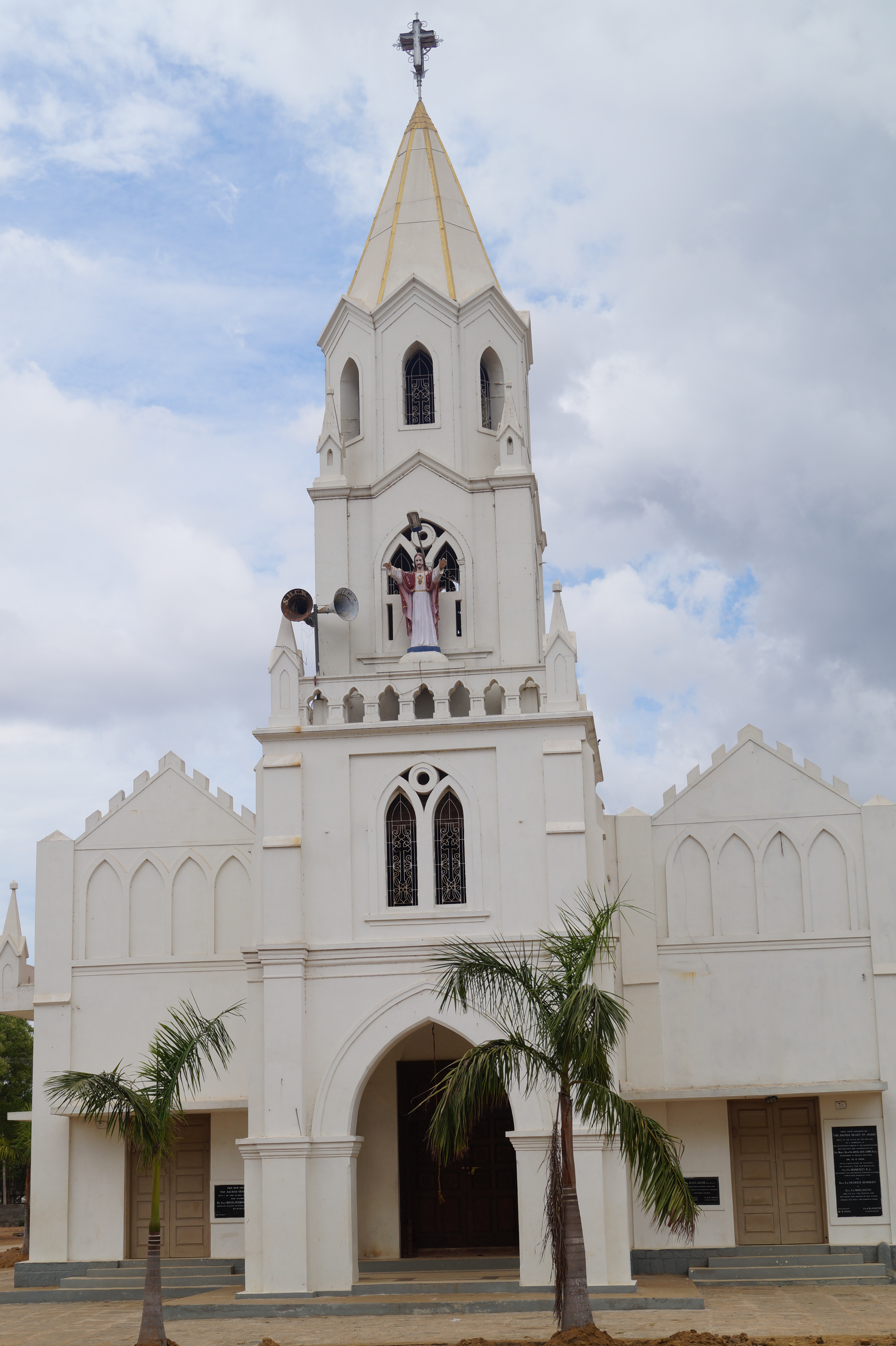 Sacred Heart Church Front Side View - Clicked by Santhosh Thomas & Sujanth Roy for Festival228